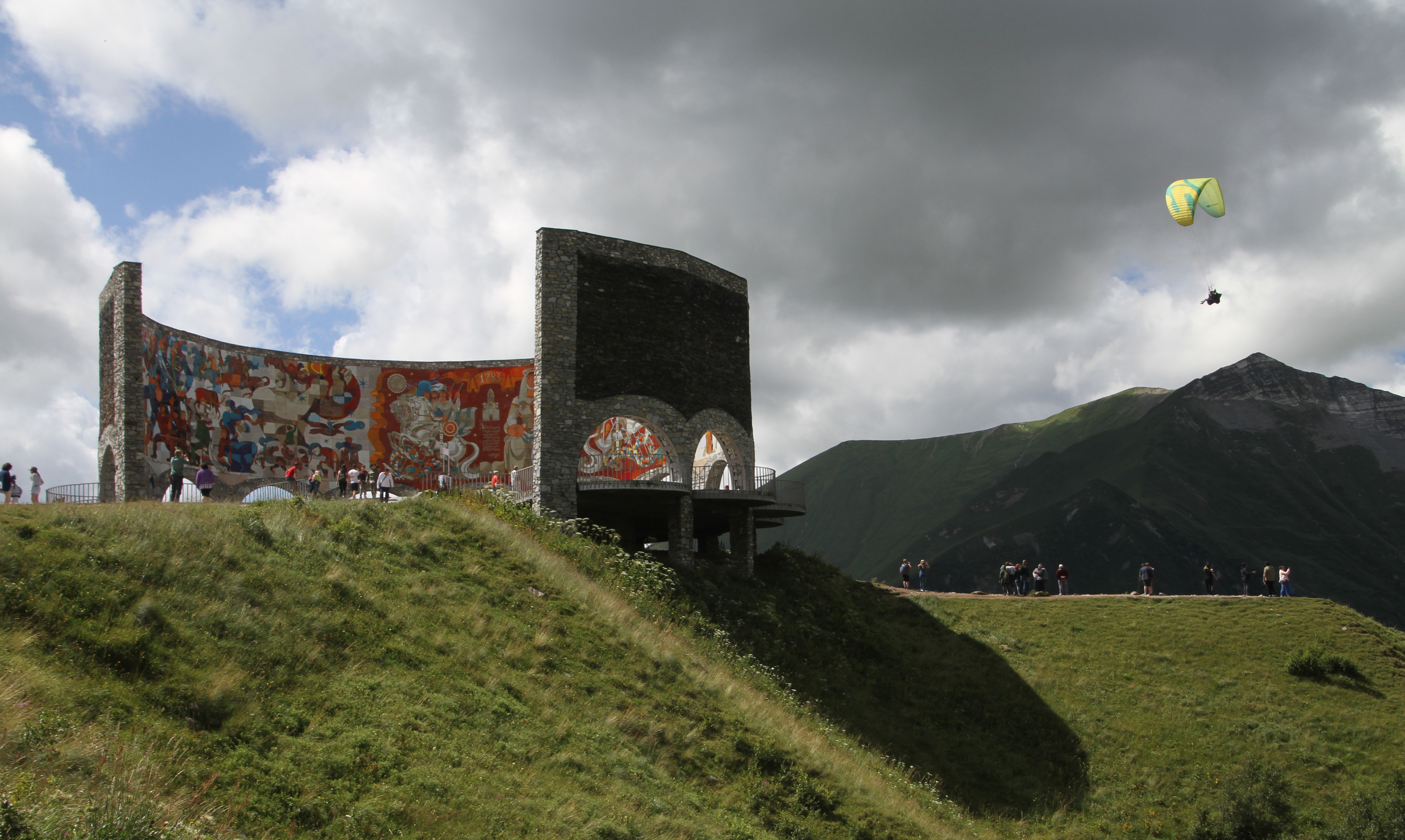 Treaty of Georgievsk monument